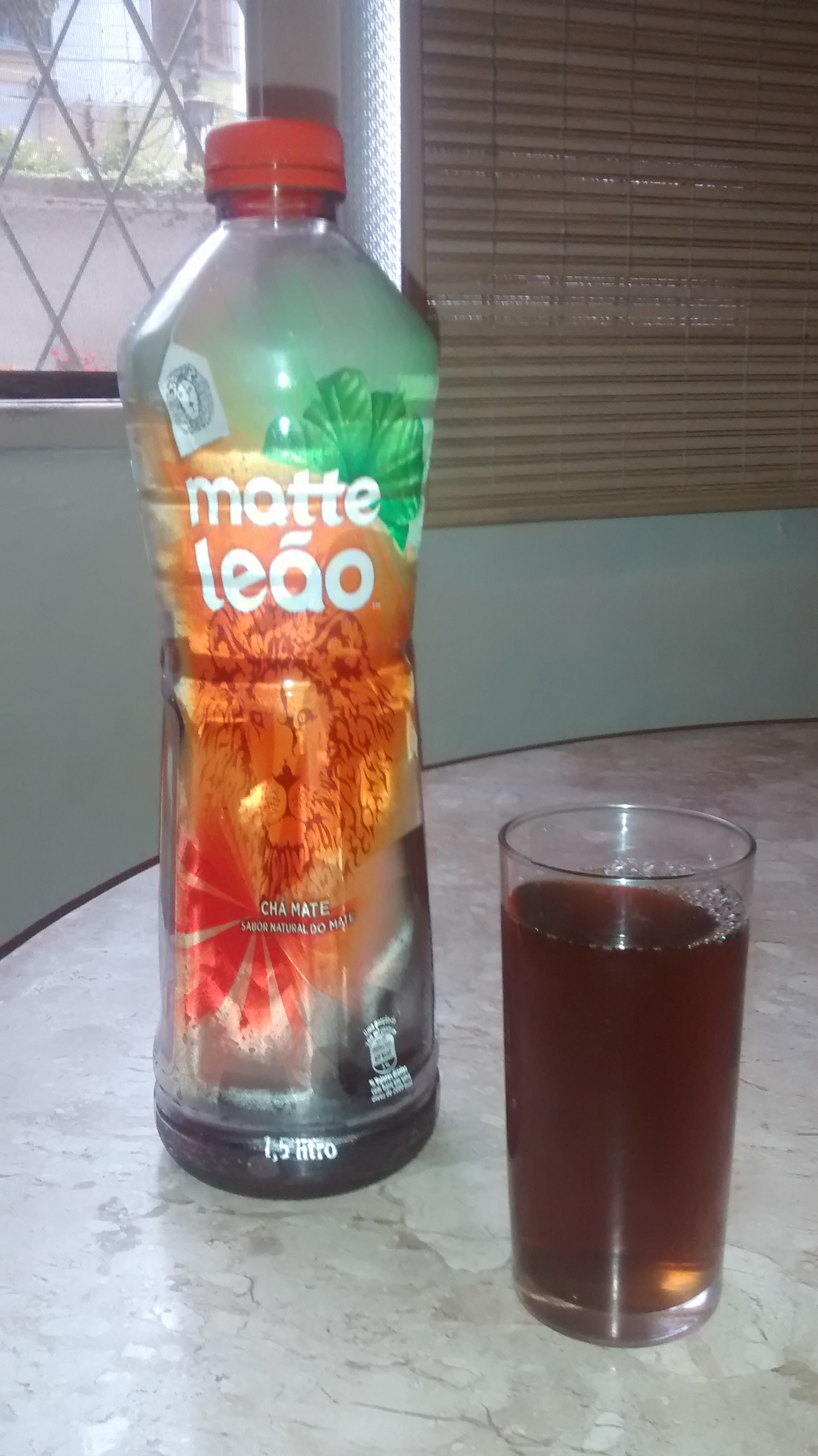 A bottle of an ice tea variataion of mate and a glass of it. Mate is consumed as an ice tea in various regions of Brazil and widely sold at supermarkets.